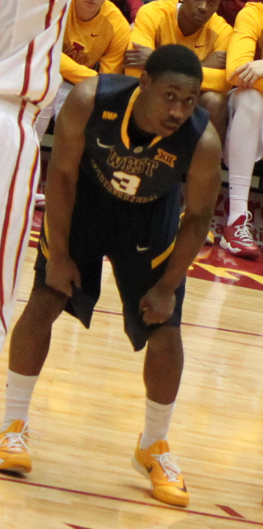 13 Bryce Dean-Jones shooting free throw Feb 14 2015 ISU vs West Virginia #2 Abdul Nader Hilton Coliseum